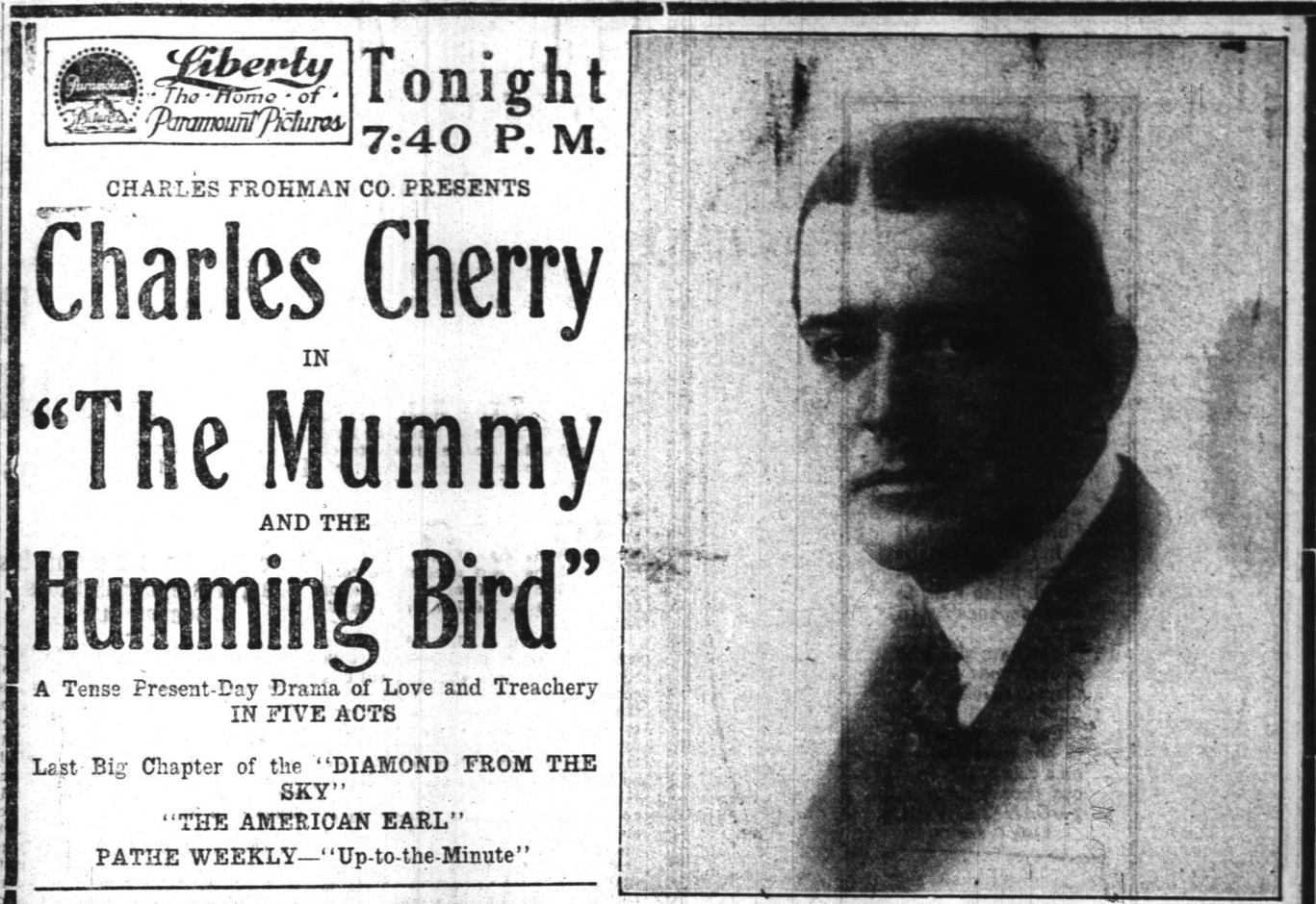 Advert for The Mummy and the Humming Bird